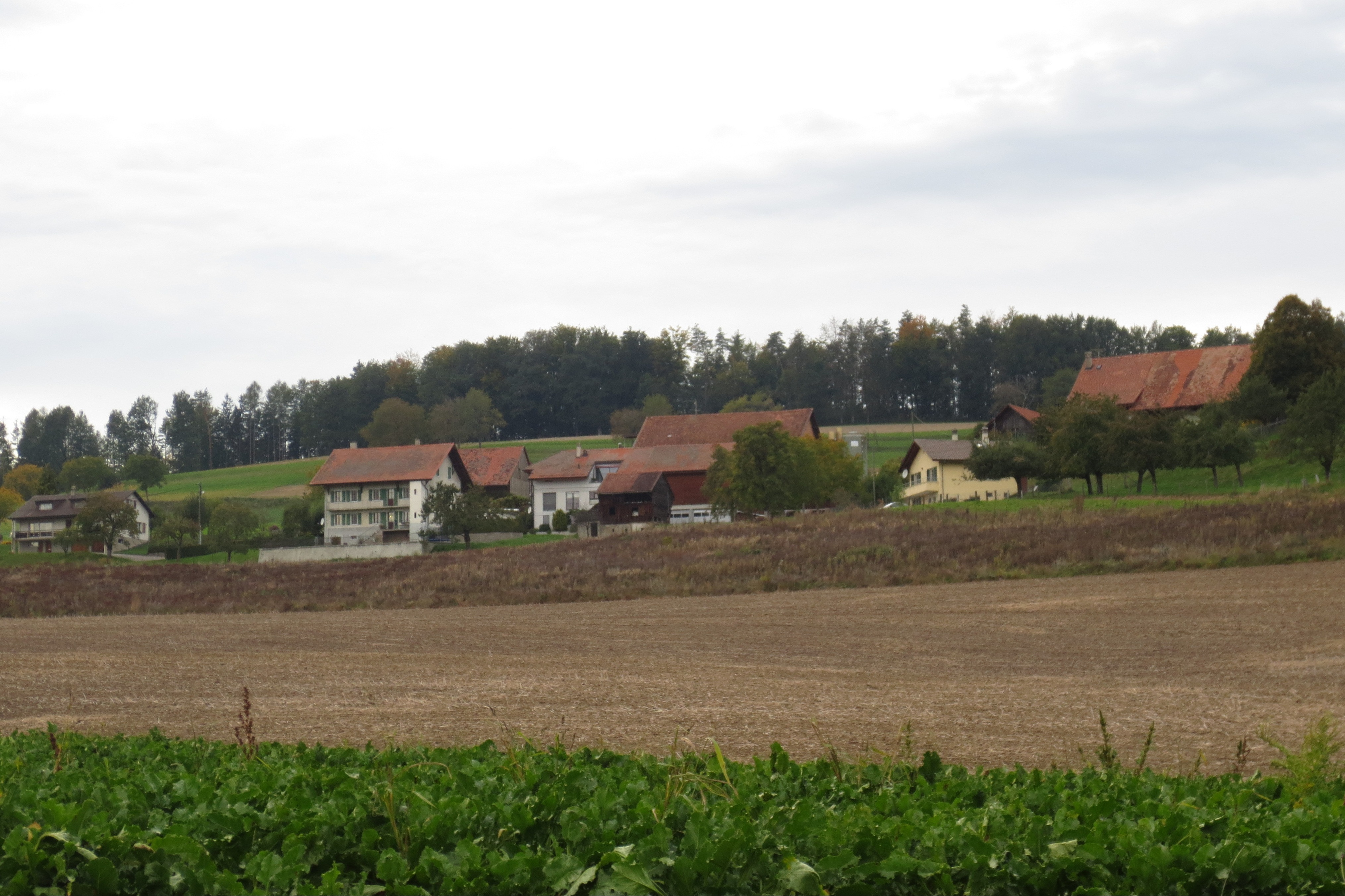 Rossenges, Canton of Vaud, Switzerland